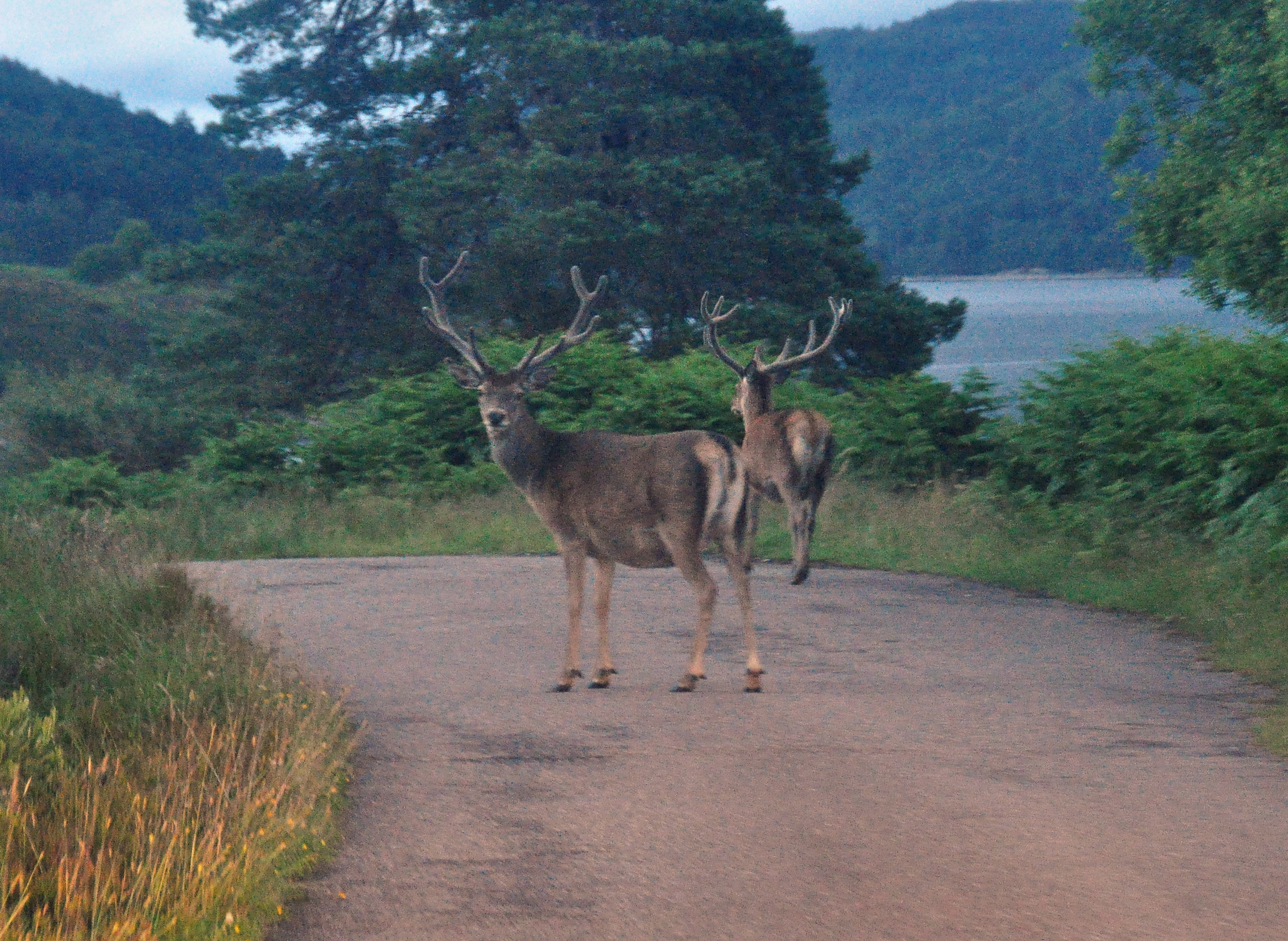 A pair of red deer stags, on the road by Loch Beinn a' Mheadhoin, in Glen Affric, Scotland.